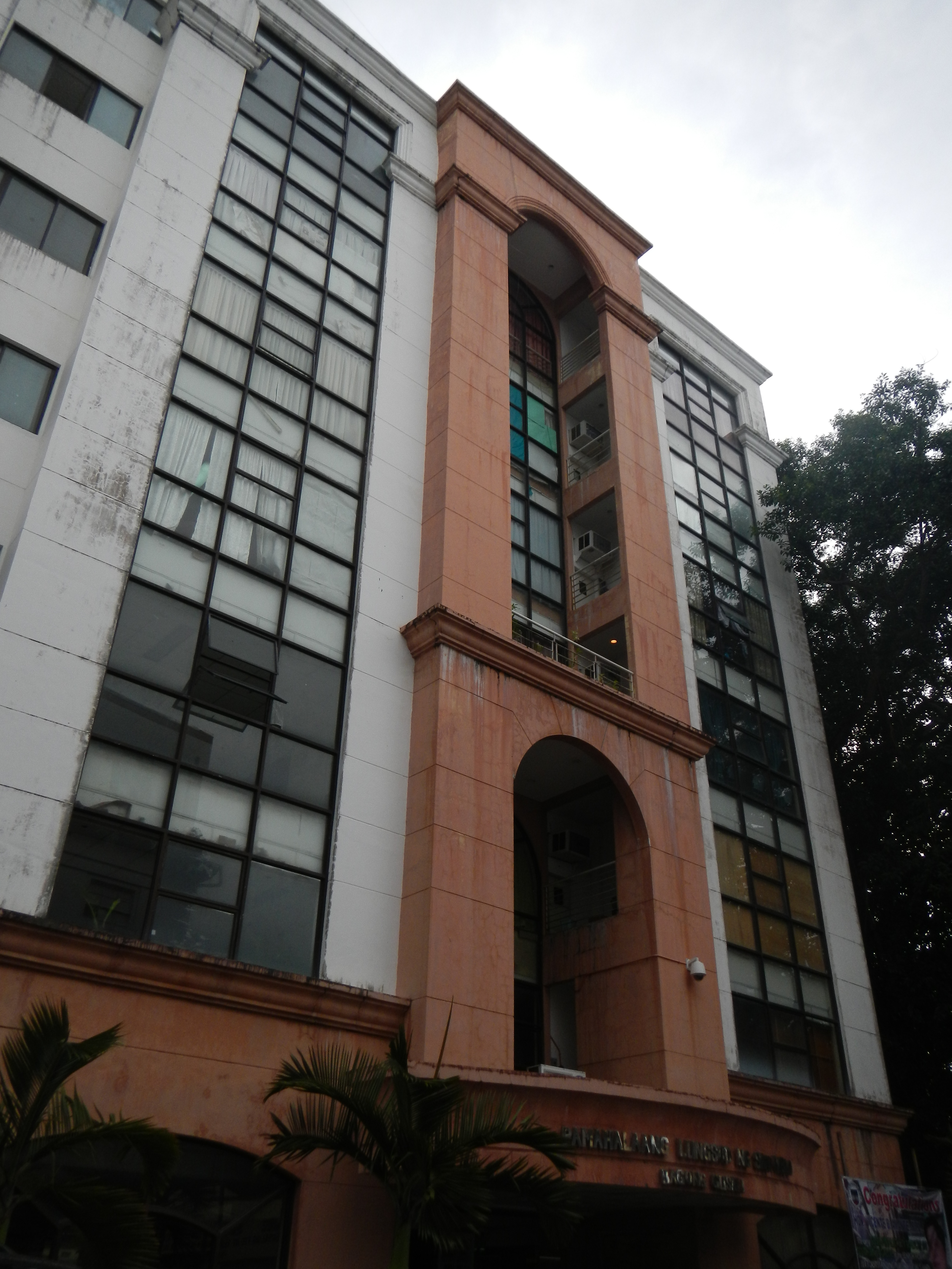 New City Hall in San Pablo City Hall Complex and Museum[1] -- San Pablo City has 2 City Halls: a) the Old Municipio which houses the Museo de San Pablo and b) the New City Hall - the City Hall Complex includes the Park and other Government Offices plus the Gymnasium or Covered Court--- San Pablo, Laguna [2] [3] [4] [5] [6] 14° 4' 11.11" N 121° 19' 34.88" E [7] Coordinates: 14°4'10"N 121°19'36"E [8] List of Parishes of the Roman Catholic Diocese of San Pablo Rector: Msgr. Melchor A. Barcenas, VGParochial Vicars: Father Michael V. Brosas Father Rico A. Villareal - EPISCOPAL DISTRICT III Episcopal Vicar: Msgr. Mario Rafael M. Castillo, HP - Vicar Forane: Father Eduardo E. Arupo [9] -- The City of San Pablo (Filipino: Lungsod ng San Pablo), a first class city in the southern portion of Laguna province, Philippines, is one of the country's oldest cities - more popularly known as the "City of Seven Lakes", referring to the Seven Lakes of San Pablo [10](Filipino: Lungsod ng Pitong Lawa): Lake Sampaloc [11] (or Sampalok), Lake Palakpakin, Lake Bunot, Lakes Pandin and Yambo, Lake Muhikap, and Lake Calibato. San Pablo City was part of the Roman Catholic Archdiocese of Lipa since 1910. On November 28, 1967, it became an independent diocese and became the Roman Catholic Diocese of San Pablo.